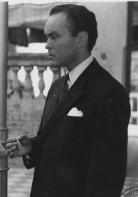 Juan José Edeelman-actor argentino